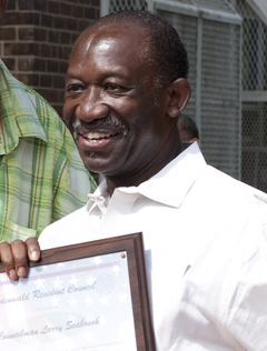 An award is presented to Larry Seabrook on behalf of our community